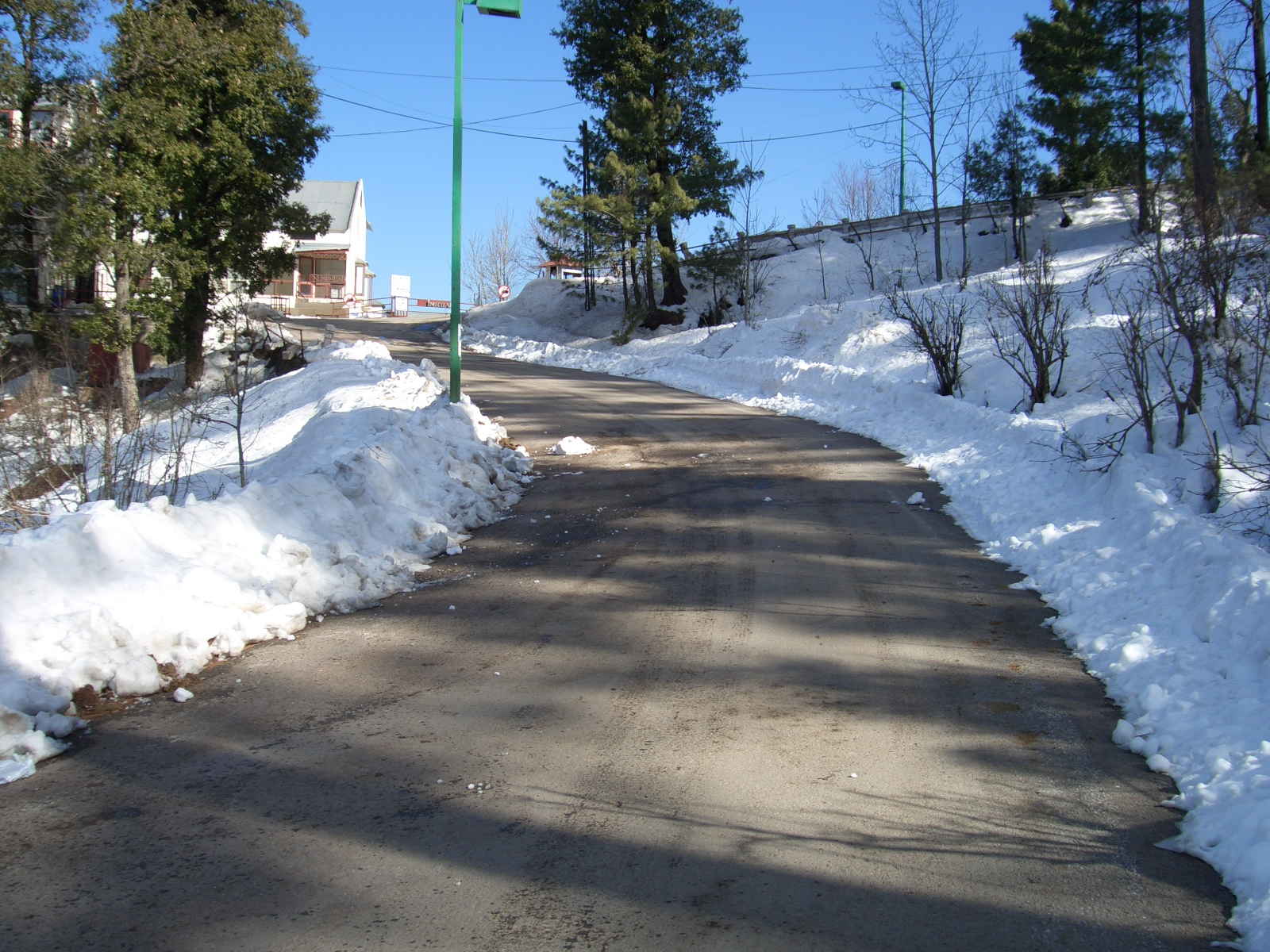 this picture was taken by waqar bajwa. Murree, northern Pakistan-January 2006